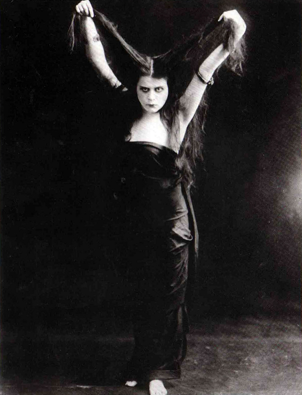 Film still of Theda Bara in the silent drama film Sin (1915) produced by William Fox.